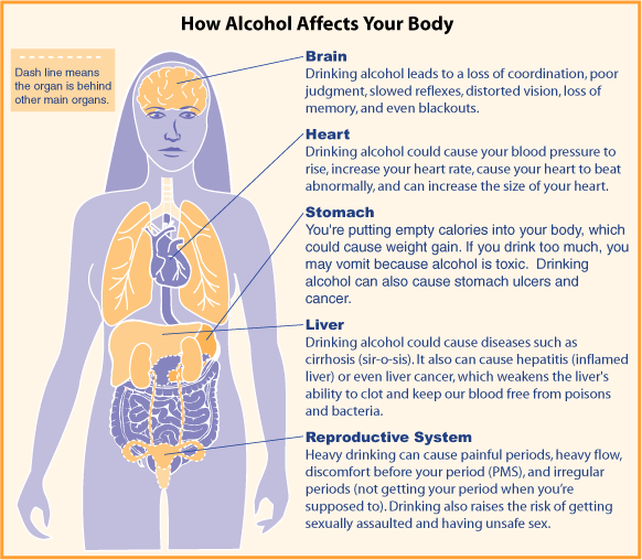 How alcohol affects your body Brain Drinking alcohol leads to a loss of coordination, poor judgment, slowed reflexes, distorted vision, loss of memory, and even blackouts. Heart Drinking alcohol could cause your blood pressure to rise, increase your heart rate, cause your heart to beat abnormally, and can increase the size of your heart. Stomach You're putting empty calories into your body, which could cause weight gain. If you drink too much, you may vomit because alcohol is toxic. Drinking alcohol can also cause stomach ulcers and cancer. Liver Drinking alcohol could cause diseases such as cirrhosis (sir-o-sis). It can also cause hepatitis (inflamed liver) or even liver cancer, which weakens the liver's ability to clot and keep our blood free from poisons and bacteria. Reproductive system Heavy drinking can cause painful periods, heavy flow, discomfort before your period (PMS), and irregular periods (not getting your period when you're supposed to). Drinking also raises the risk of getting sexually assaulted and having unsafe sex. Content last updated March 28, 2008